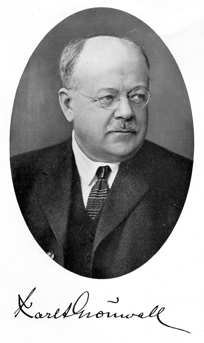 Karl A. Grönwall, (1869-1944), Swedish geologist and paleontologist, professor at Lund University, Sweden. With signature.